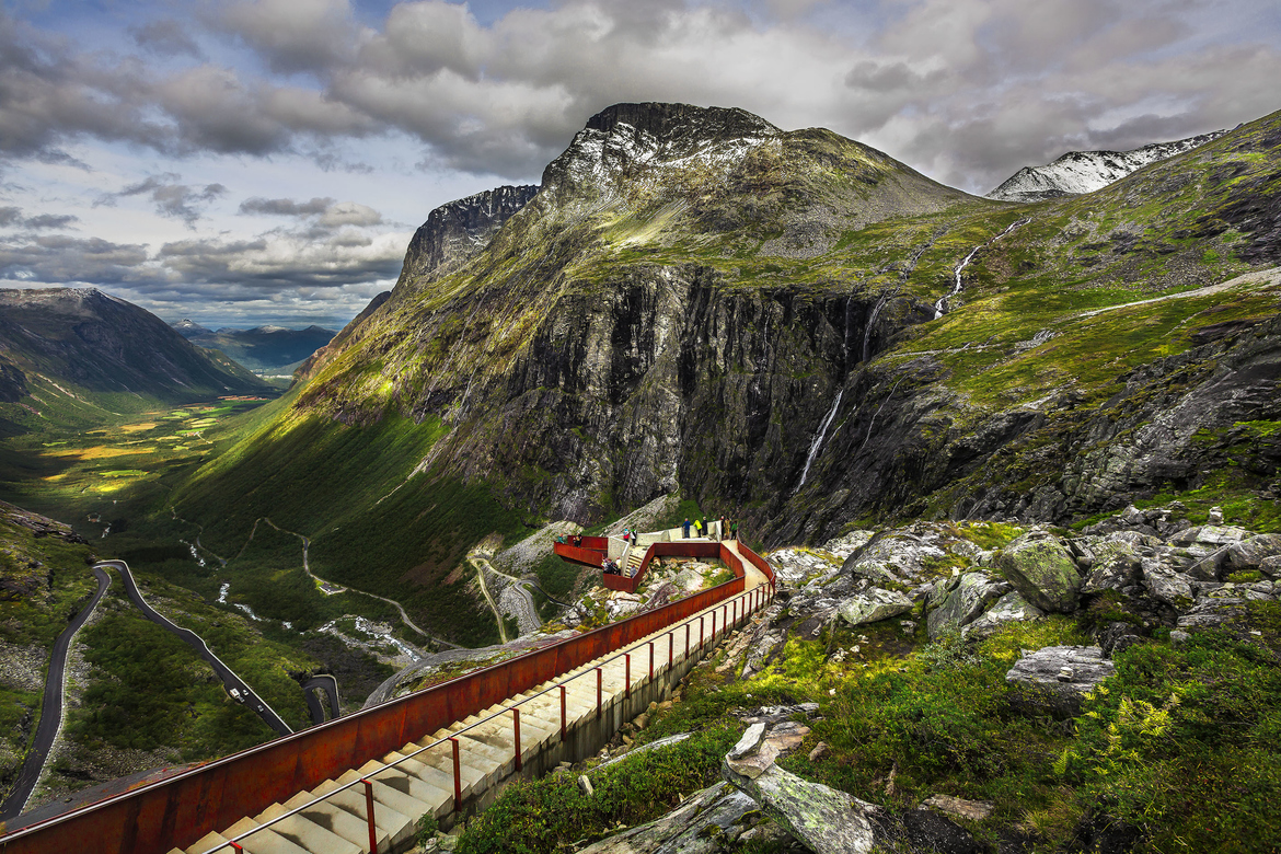 The viewpoint at Trollstigen, and the walking way to the viewpoint